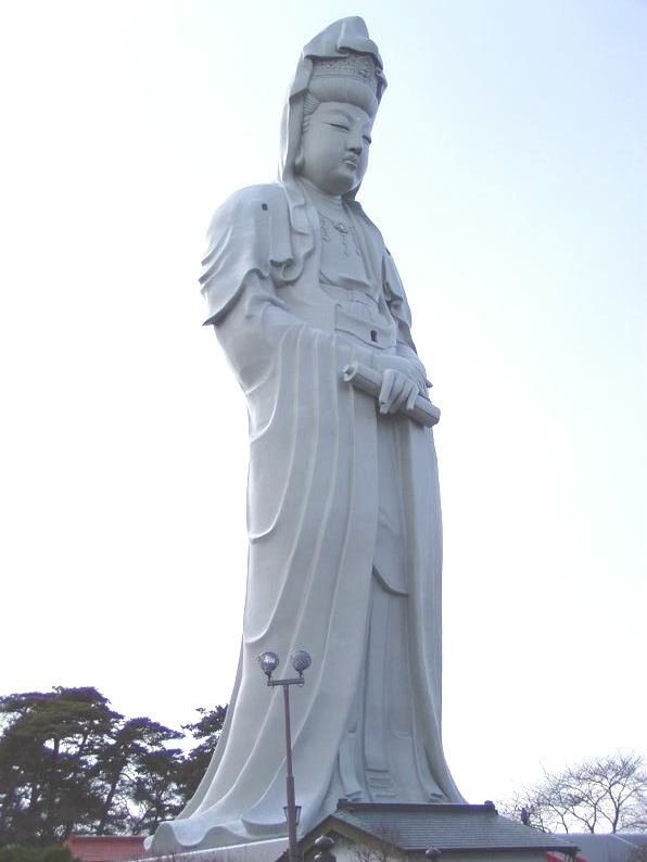 Takasaki Kannon - a large statue of White-robed Kannon (白衣観音), bodhisattva of compassion, located in Takasaki city, Gumma Pref., Japan.